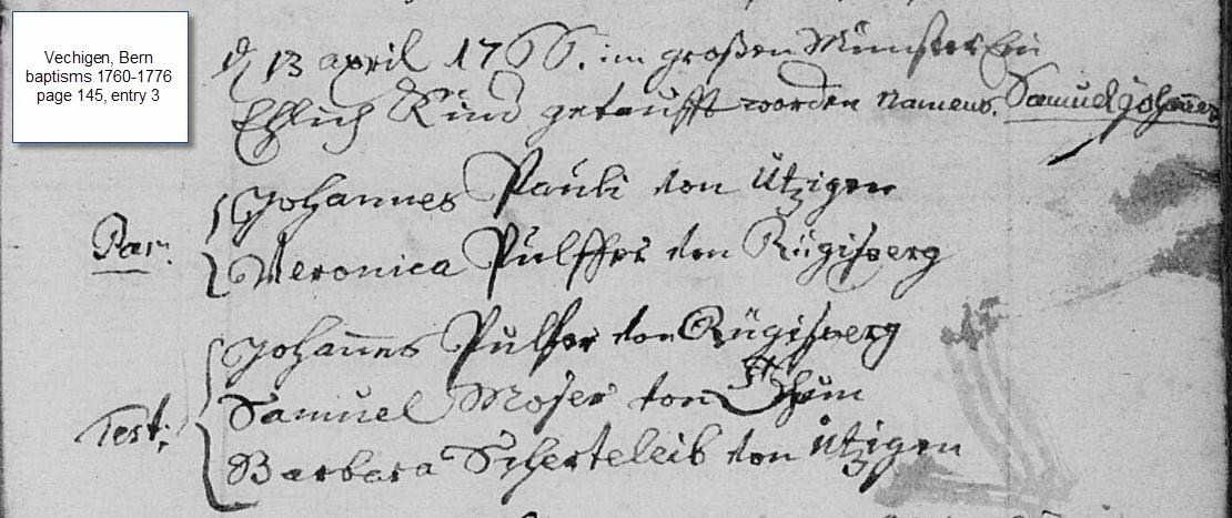 Baptism of Samuel Johannes Pauli, 13 Apr 1766, in Vechigen, Berne, Switzerland. Parents Johannes Pauli (originally from Utzigen) & Veronica Pulffer (originally from Rügisberg).